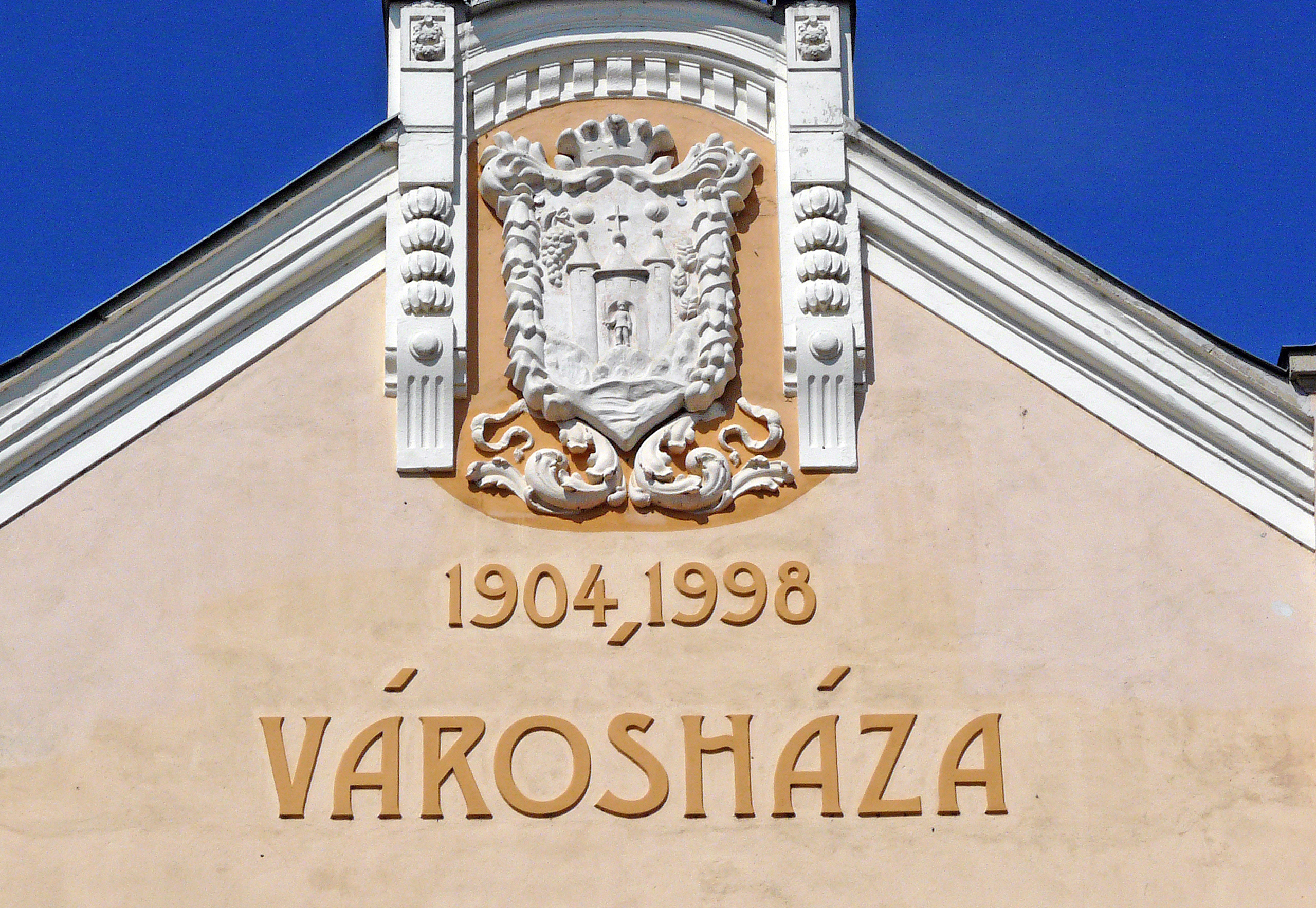 The Town hall of Dunaföldvár